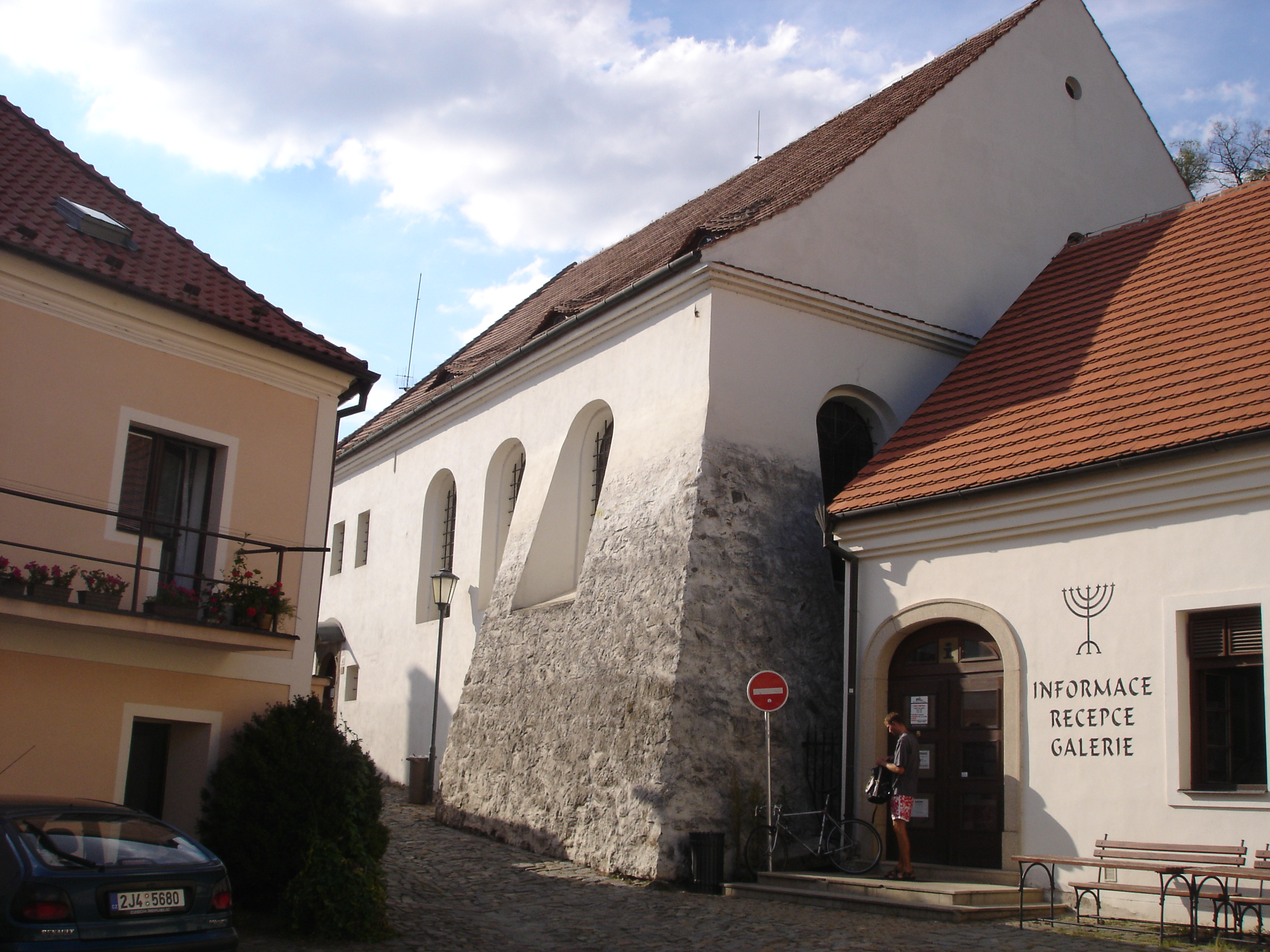 New (Reart) synagogue in Třebíč jewish quarter.